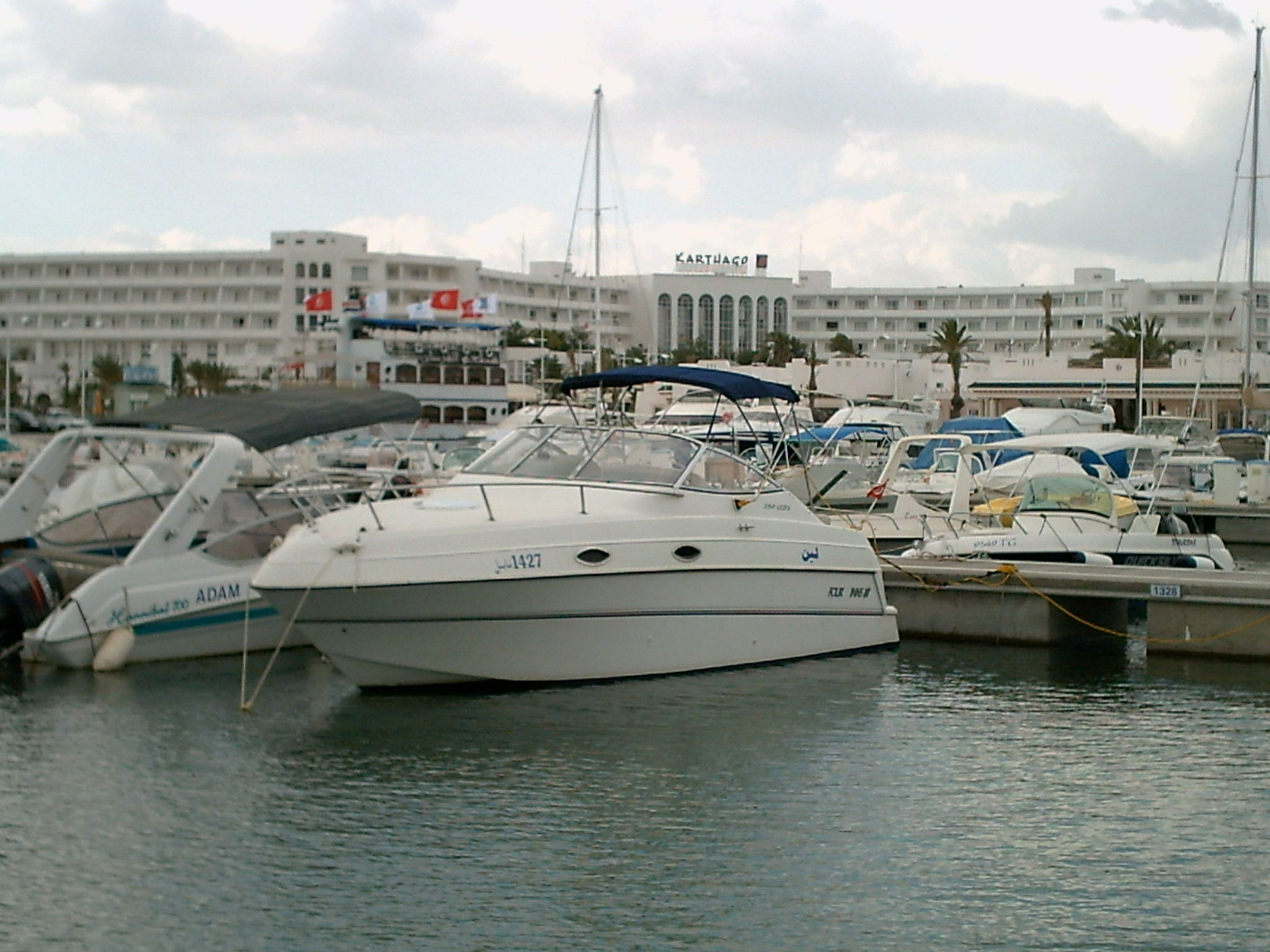 Yachts in the harbour of Yasmine-Hammamet, Tunisia